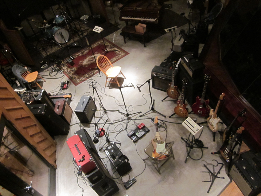 Chuck Hammer recording rig 2014